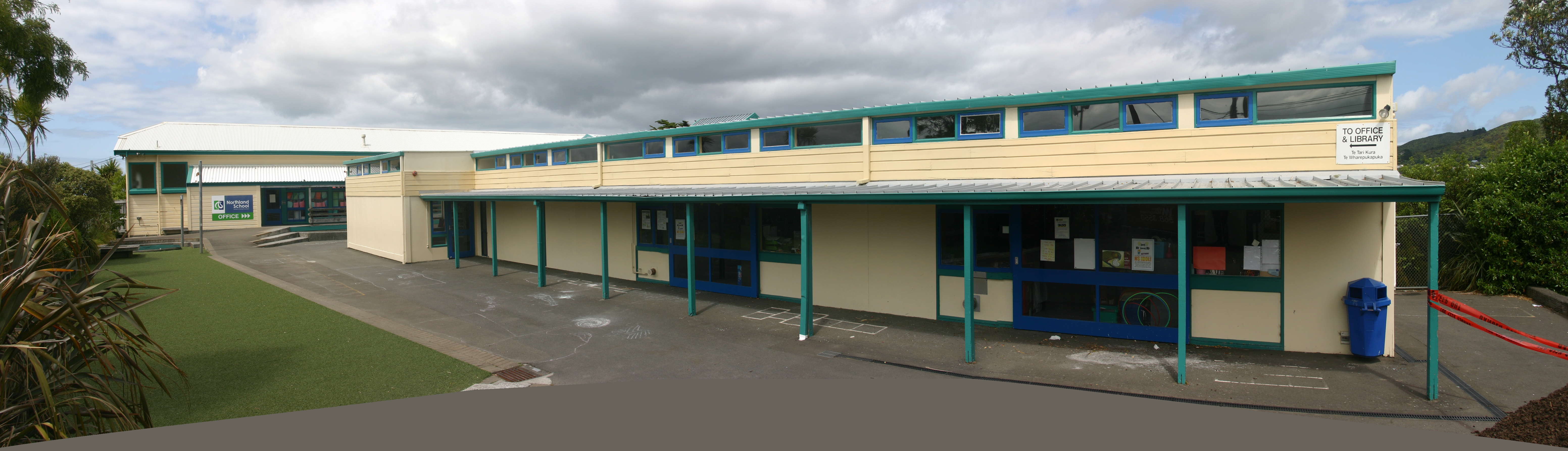 Northland School. Wellington, New Zealand. Panorama of four images stitched together with Hugin (odd shaped filled in foreground area is an artifact of the stitching process)